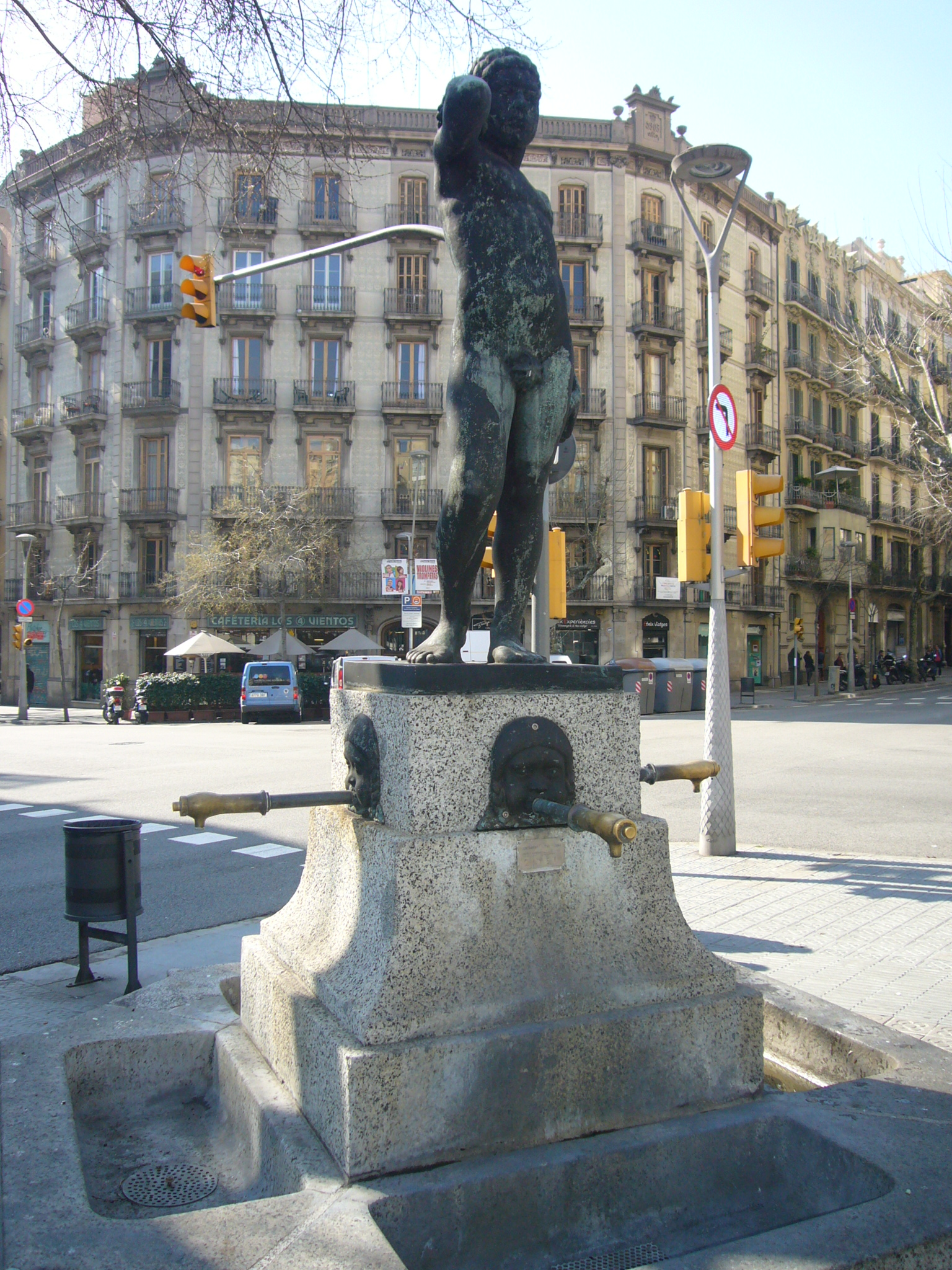 Font de l’Efeb